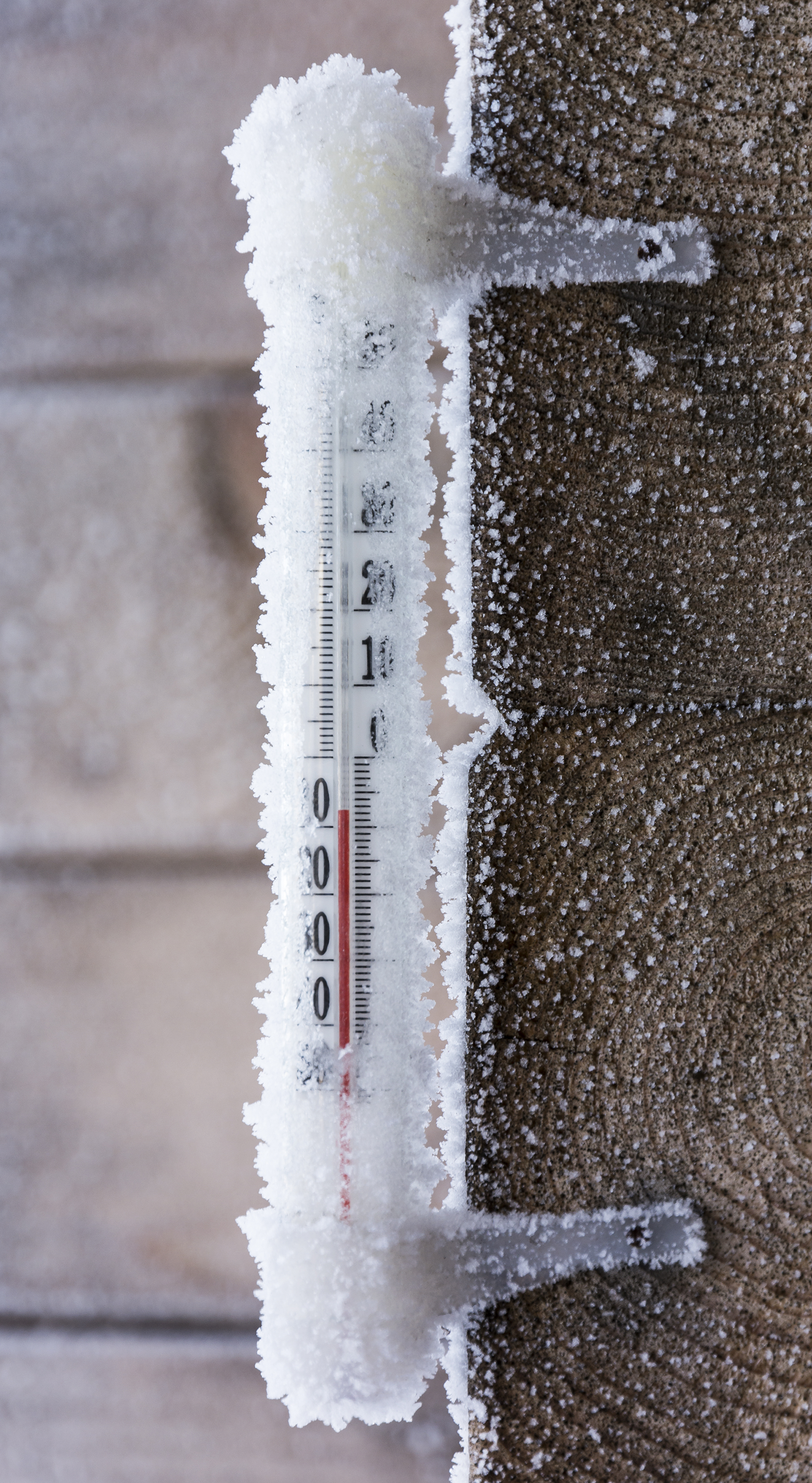 Frost on the thermometer